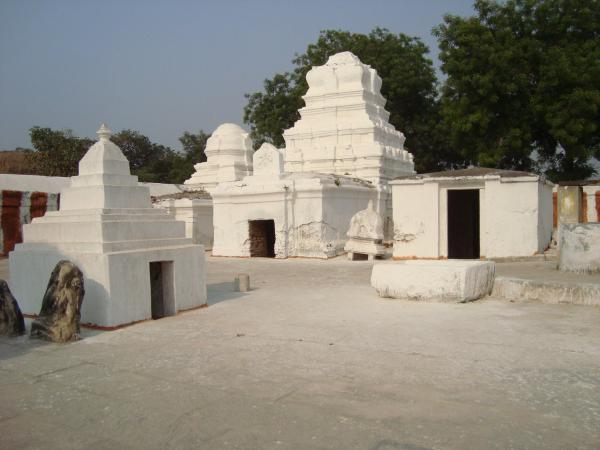 The Kapoteswara temple must have come into existence, at a period of mutual tolerance between Hinduism and Buddhism. A famous inscription in the temple further supports this.